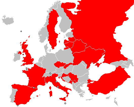 Teams of 2013 Eurobasket Women